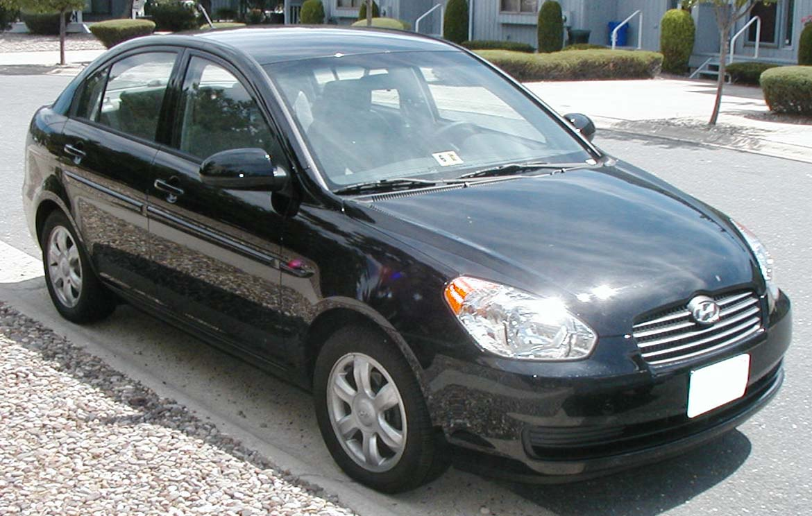 2006 Hyundai Accent photographed in USA.